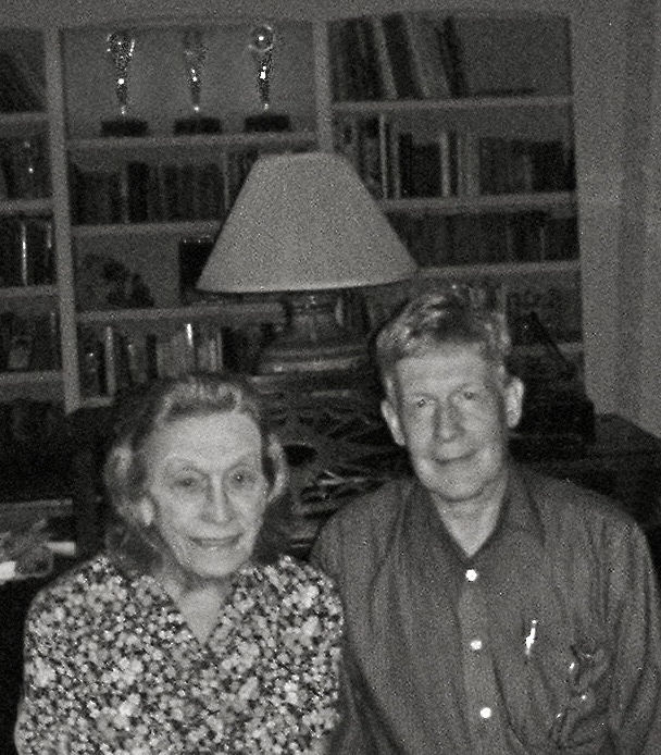 David Hegarty with Angela Morley at her home in 2004. Her Emmy awards can be seen on the shelf in the background.